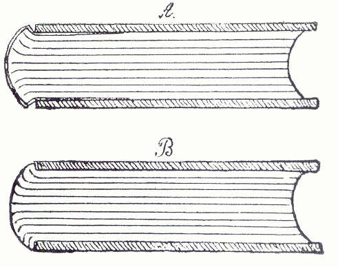 A = 'French groove' or French joint' (compare fig. 8 at ) B = Tight joint